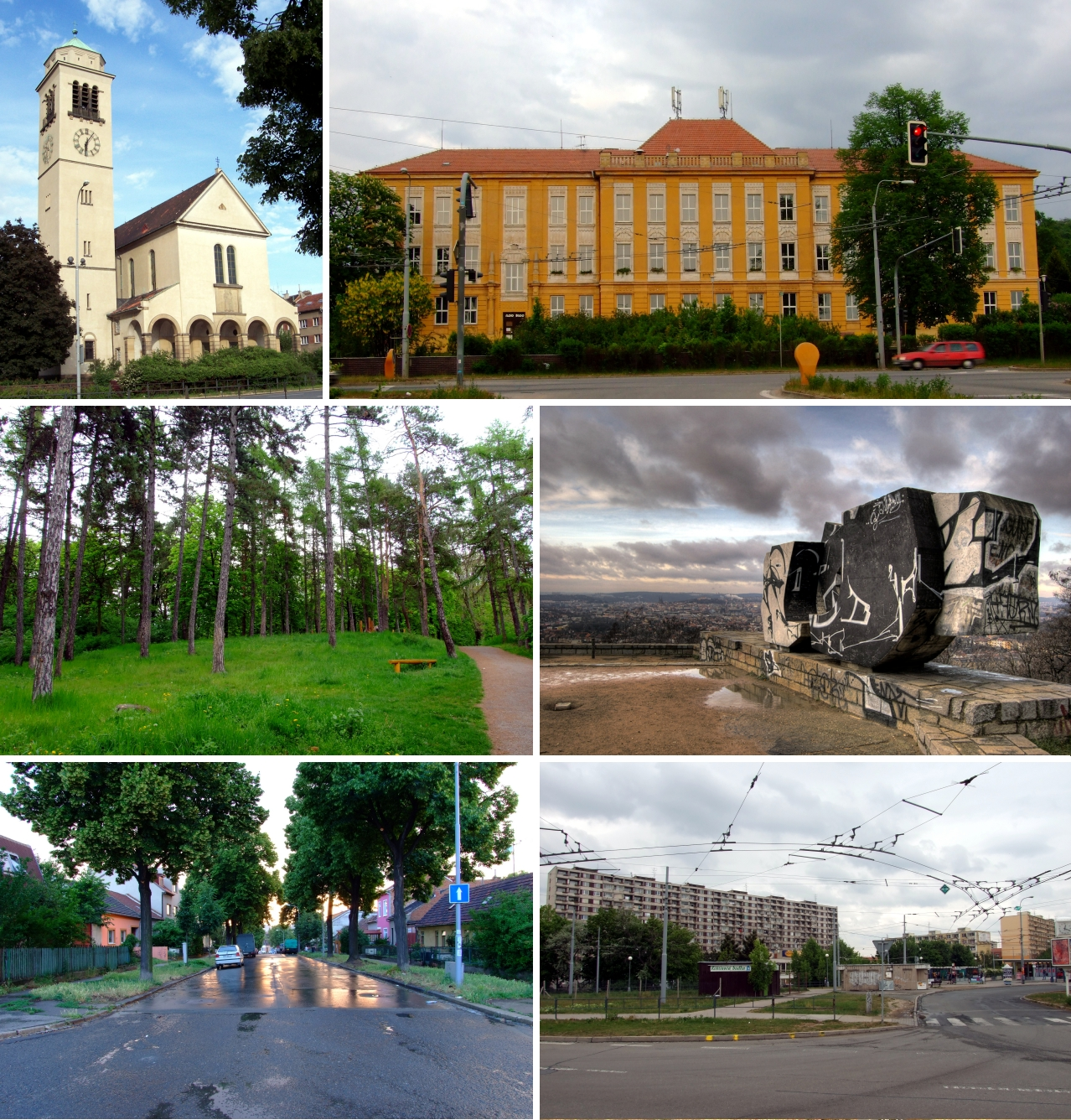 Brno-Židenice - environment of forest park Akátky